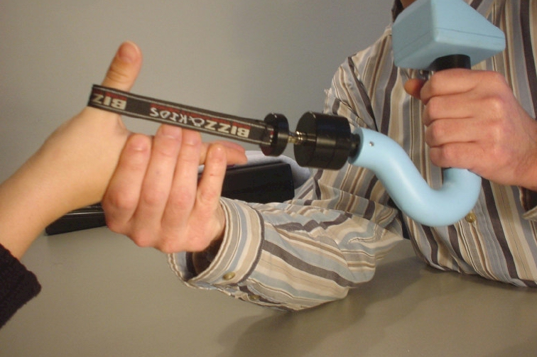 Hand strength measurement with the Rotterdam Intrinsic Hand Myometer (RIHM). In this measurement, the strength of the muscles involved palmar abduction of the thumb are measured